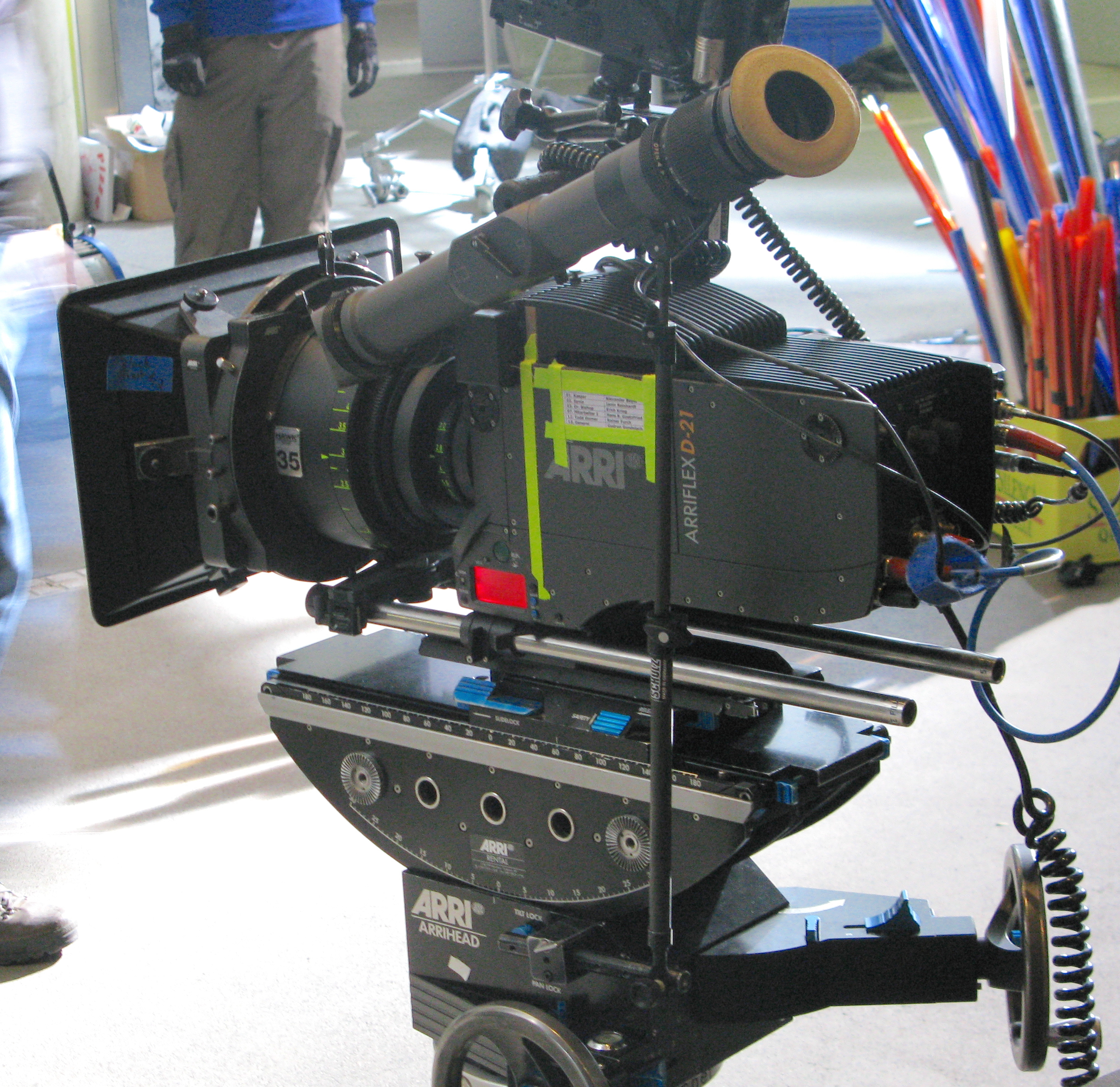 The filmcamera Arriflex D-21 by the Munich company Arri.